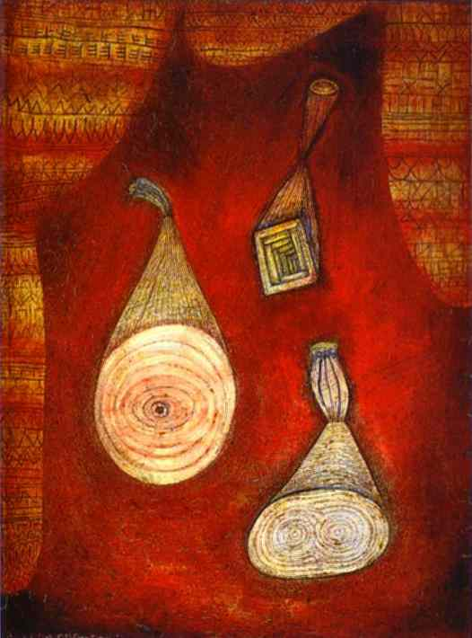 Oil and watercolor on cadboard. 56.5 x 42.5 cm. Thyssen-Bornemisza Collection, Madrid, Spain.